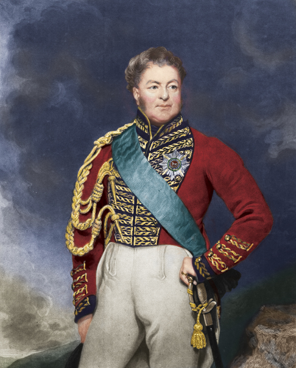 Gen. Sir Charles Asgill, chief party in the Asgill Affair of 1782.